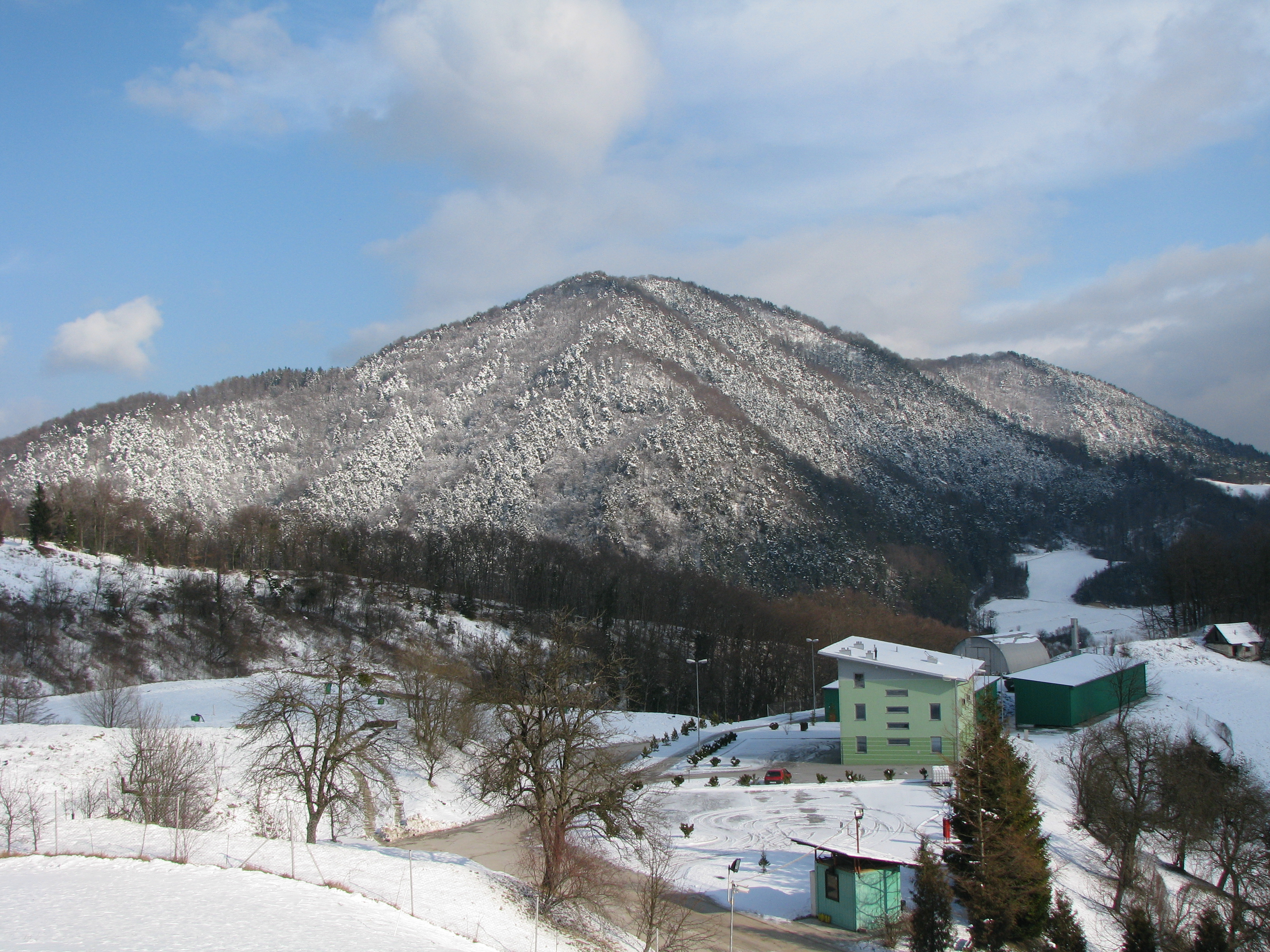 Mountain Govško brdo (811 m), Slovenia, in winter time. In front: the Unično landfill.